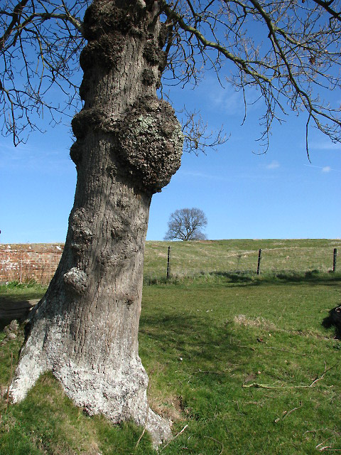 Growth on tree trunk Beside footpath to Felbrigg Pond. Large rounded outgrowths on trunk or branches of trees are called burls; the wood cut from burls is often used for decorative purposes as a veneer. Burls develop from one or more twig buds whose cells continue to multiply but never differentiate so that the twig can elongate into a limb. Burls do not usually cause harm to trees.